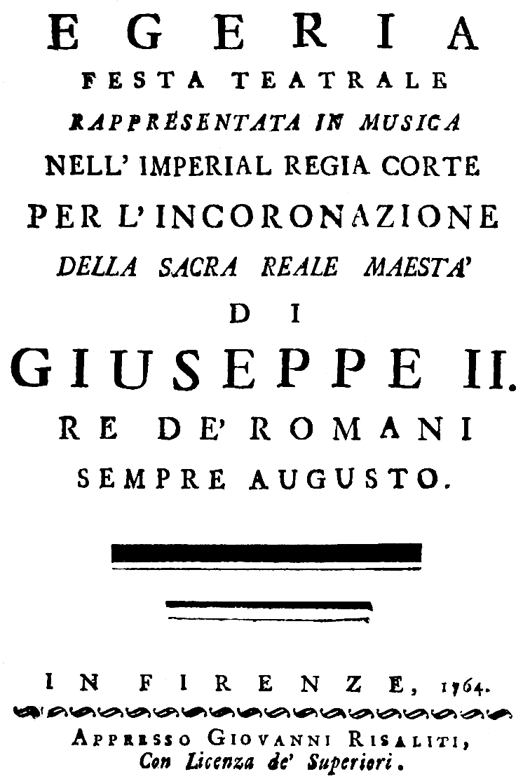 Johann Adolph Hasse - Egeria - titlepage of the libretto - Florence 1764